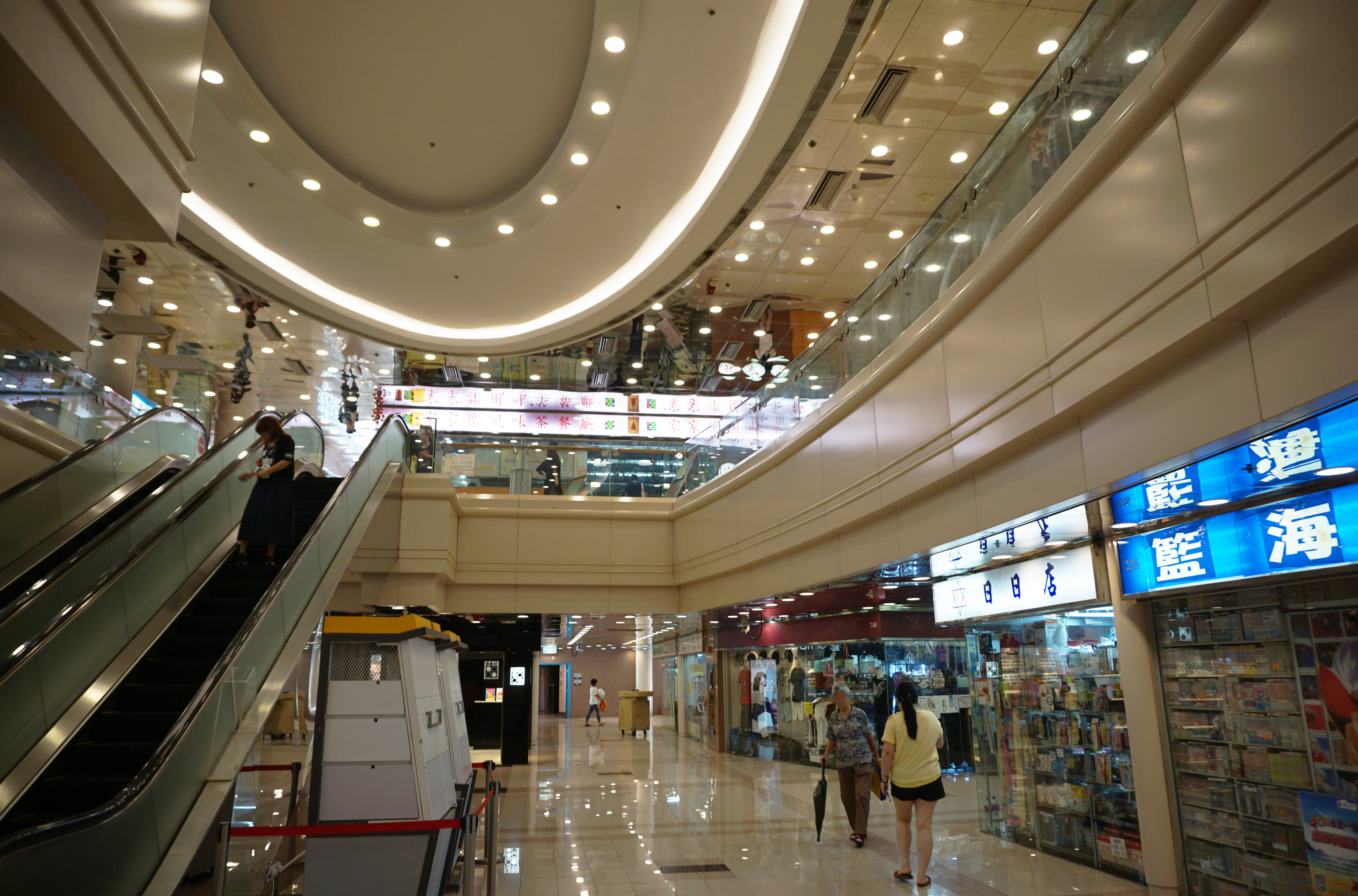 Shek Lei Shopping Centre in Kwai Chung, Hong Kong.